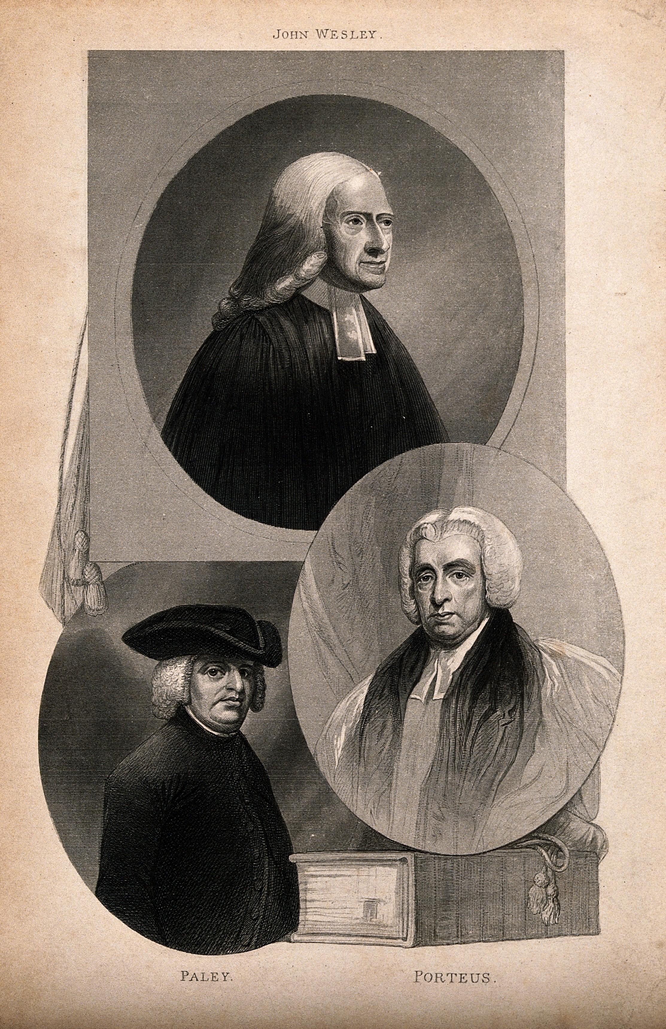 Three churchmen: John Wesley, William Paley, and Beilby Porteus. Engraving. Iconographic Collections Keywords: William Paley; John Wesley; Beilby Porteus